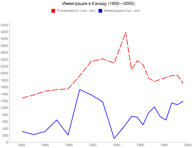 Birth and immigration in Canada from 1850 to 2000, Russian version. Based on information from Statistics Canada. This information is also available in English and Italian.